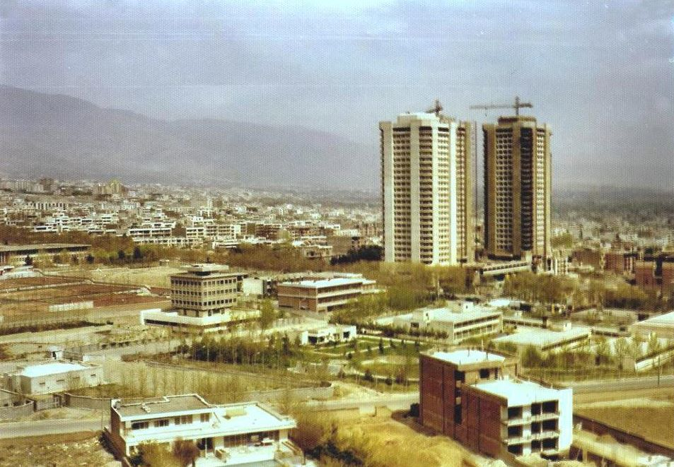 Copyright ownership confirmed by calling to company's office